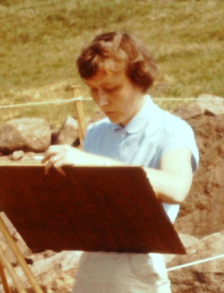 Karin Aasma at an archaeological site at an unknown location, 1960.